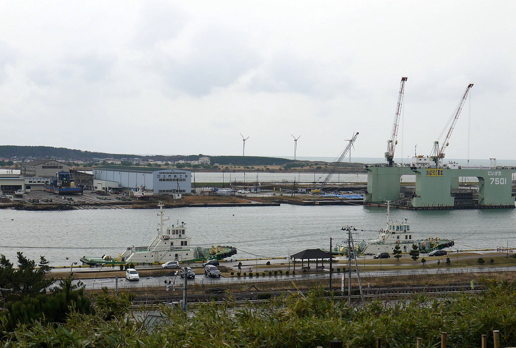 The Port of Sakata seen from Hiyoriyama Park, Sakata, looking west-southwest.!Panasonic Lumix DMC-GF2